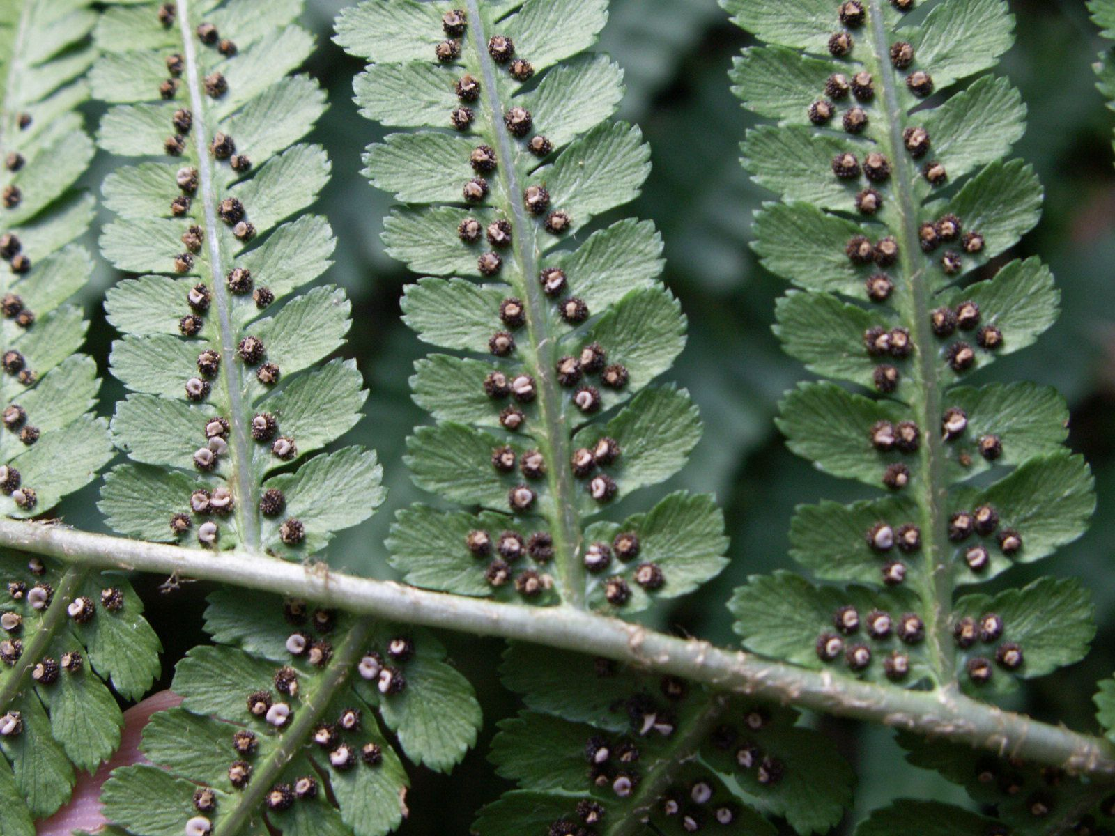 Dryopteris filix-mas, Litauen, trockner Kiefernwald, Sporen